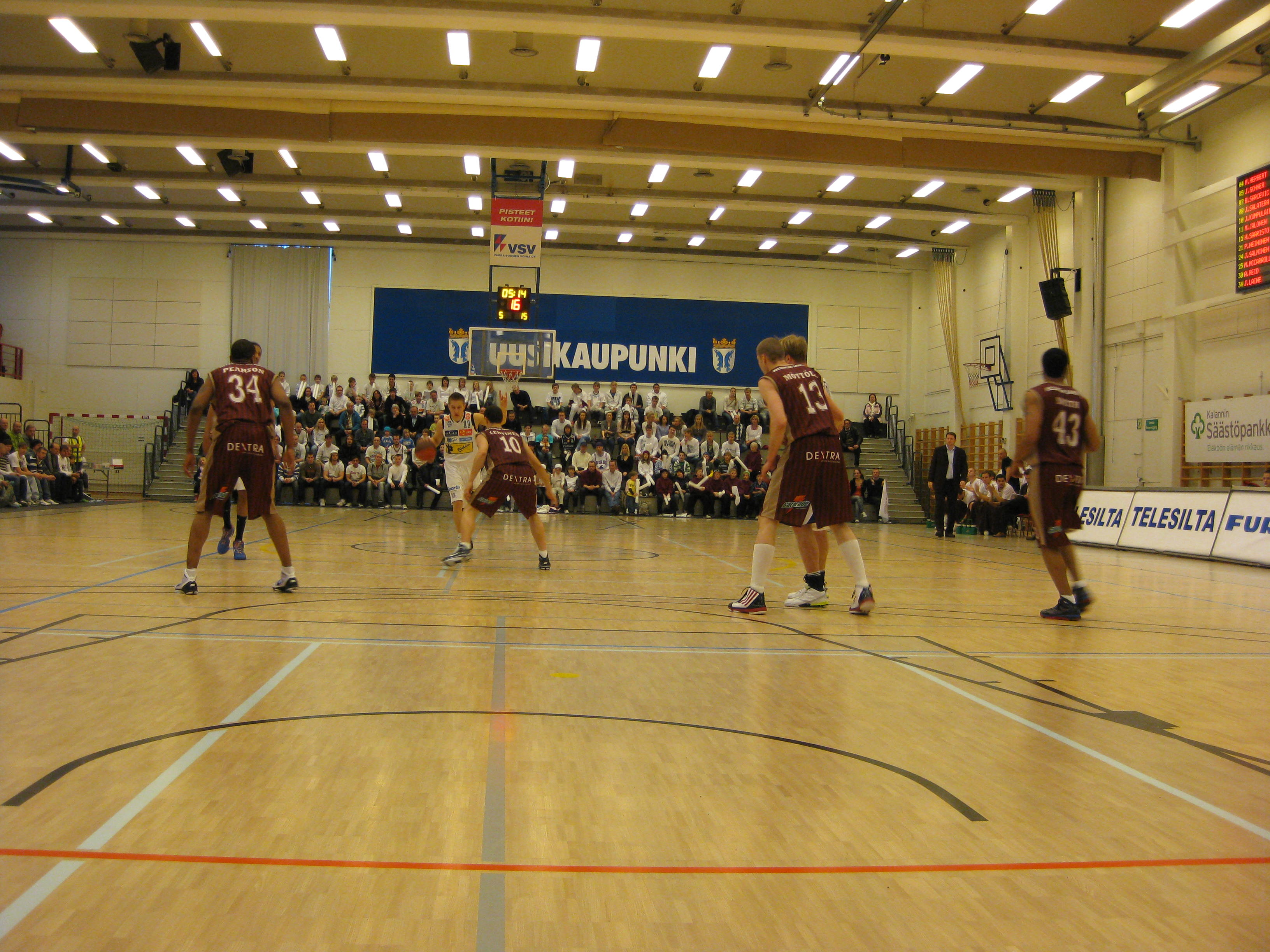 Korihait-Topo 2010 Playoffs